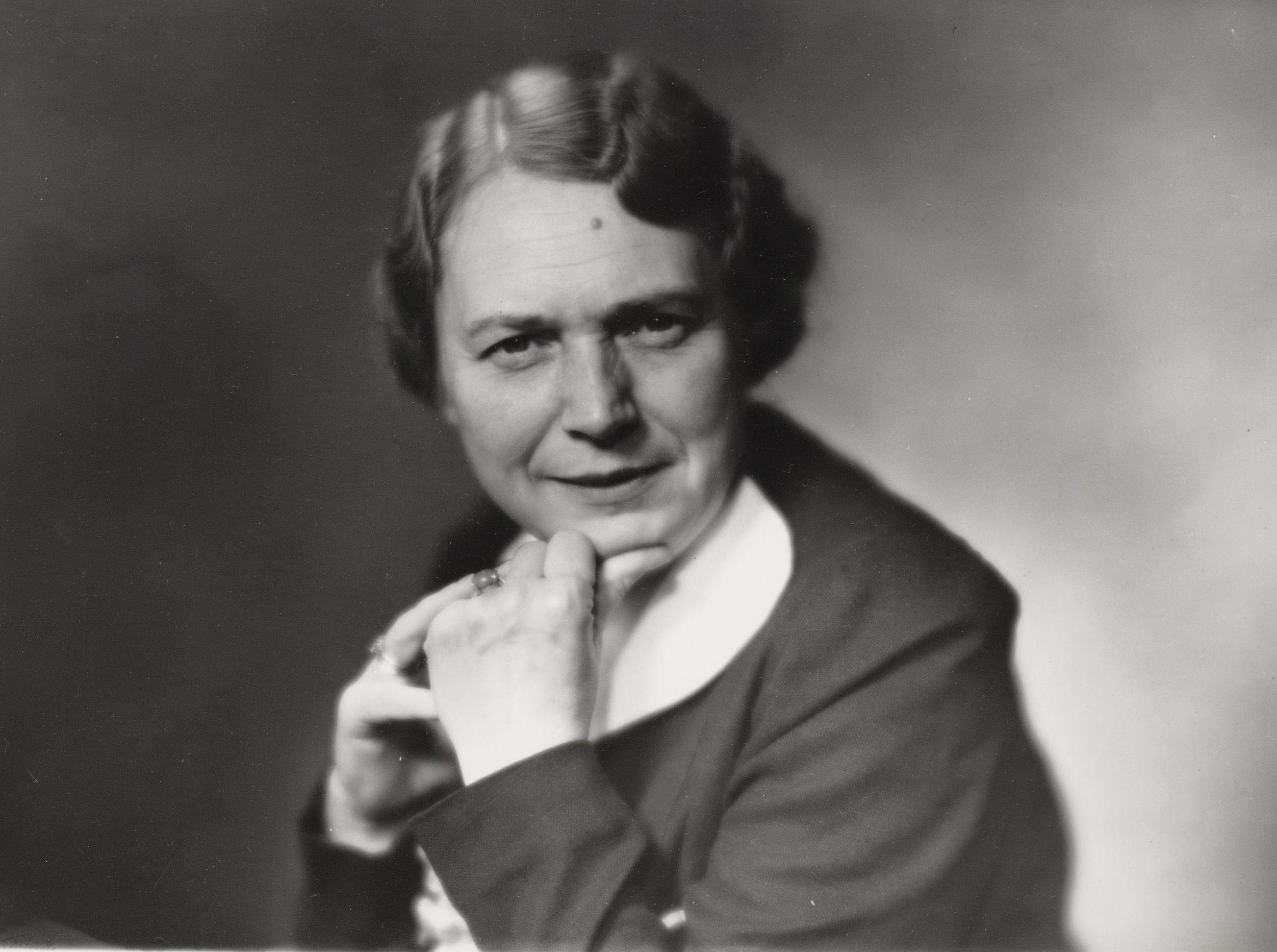 Dutch foodie Riek Kotgering-Hillebrand. Photograph Atelier Jacob Merkelbach Amsterdam, probably 1930s